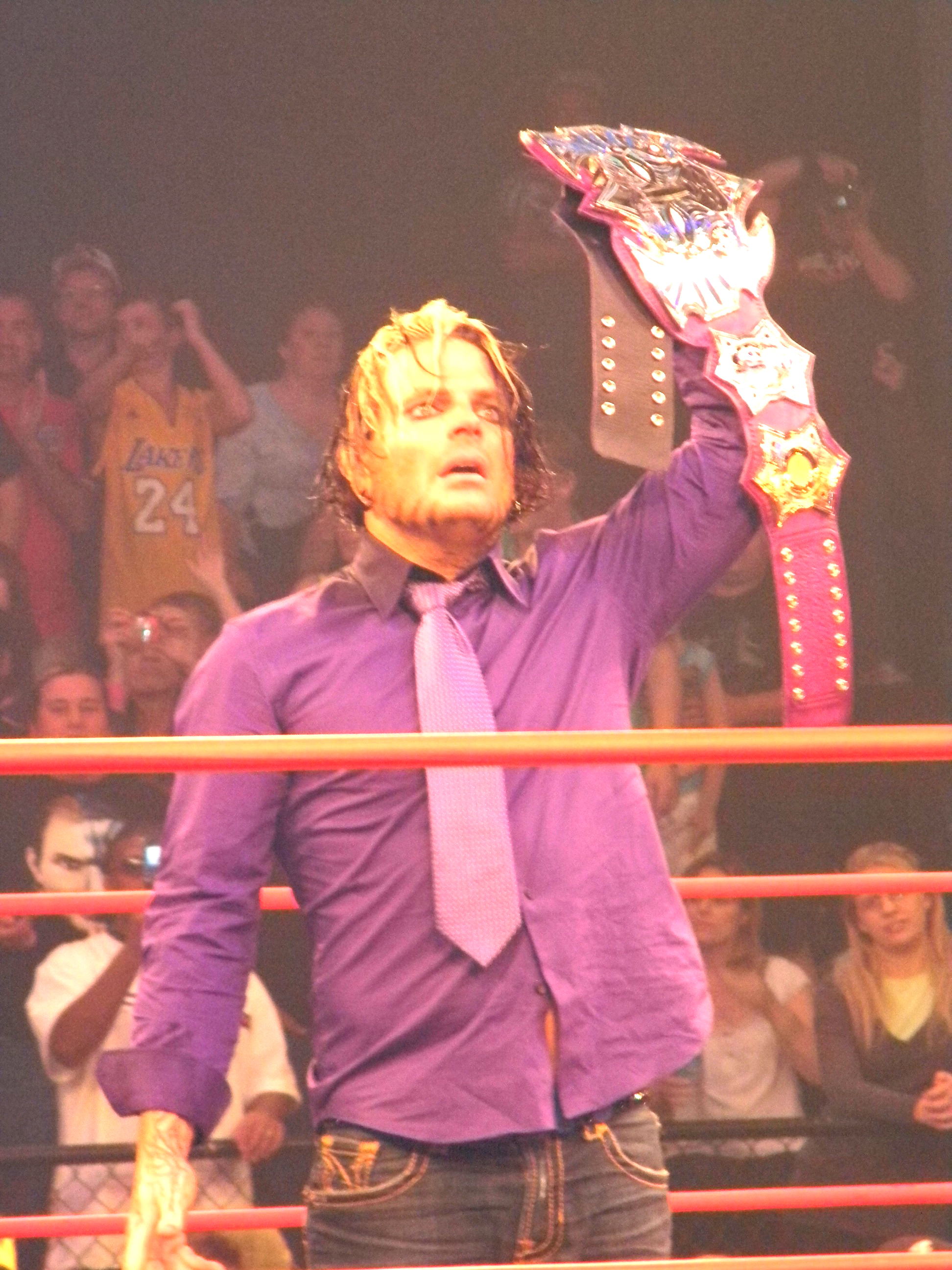 Jeff Hardy posing for the camera after a beat down of Matt Morgan during an Impact taping.